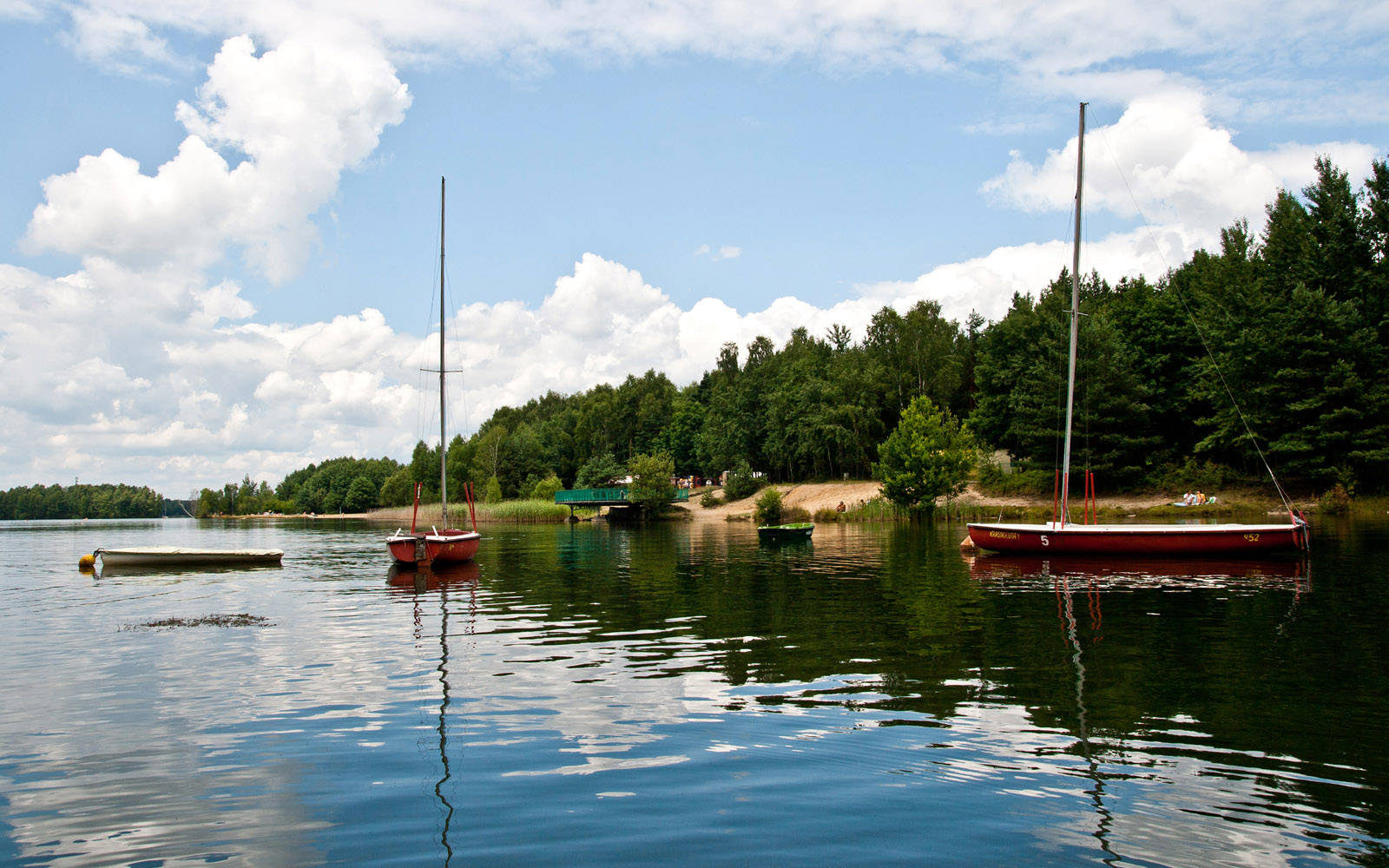 Chechlo-Naklo lake